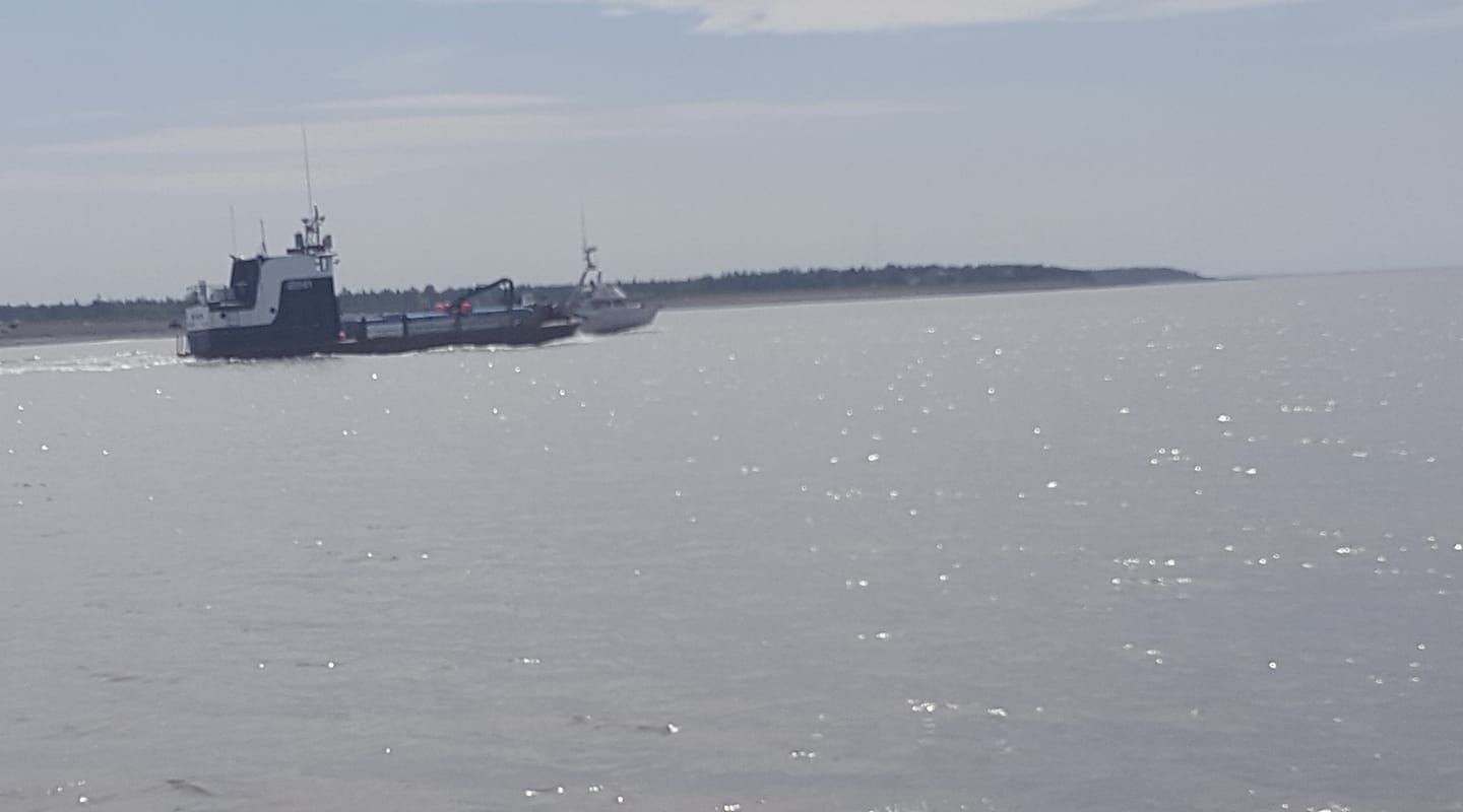 fishing boats entering Cook Inlet via the Kenai River, Kenai, Alaska